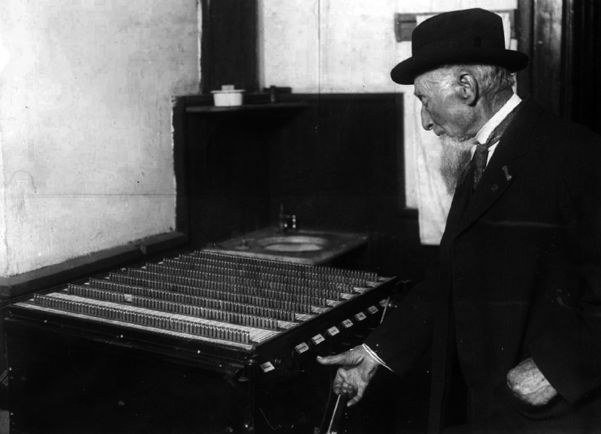 Photo of a seven ticket voting machine. Pictured with the machine is Moses Stone, the courthouse custodian. From the snippet of news copy attached to the back of the photo, this appears to be in Denver, Colorado. This is a McTammany voting machine that recorded votes on a broad roll of punched paper akin to a player-piano roll.